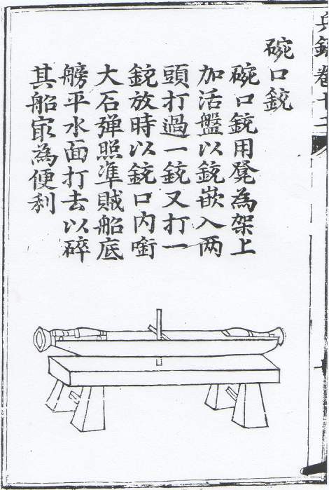 Ming "bowl-size caliber gun".